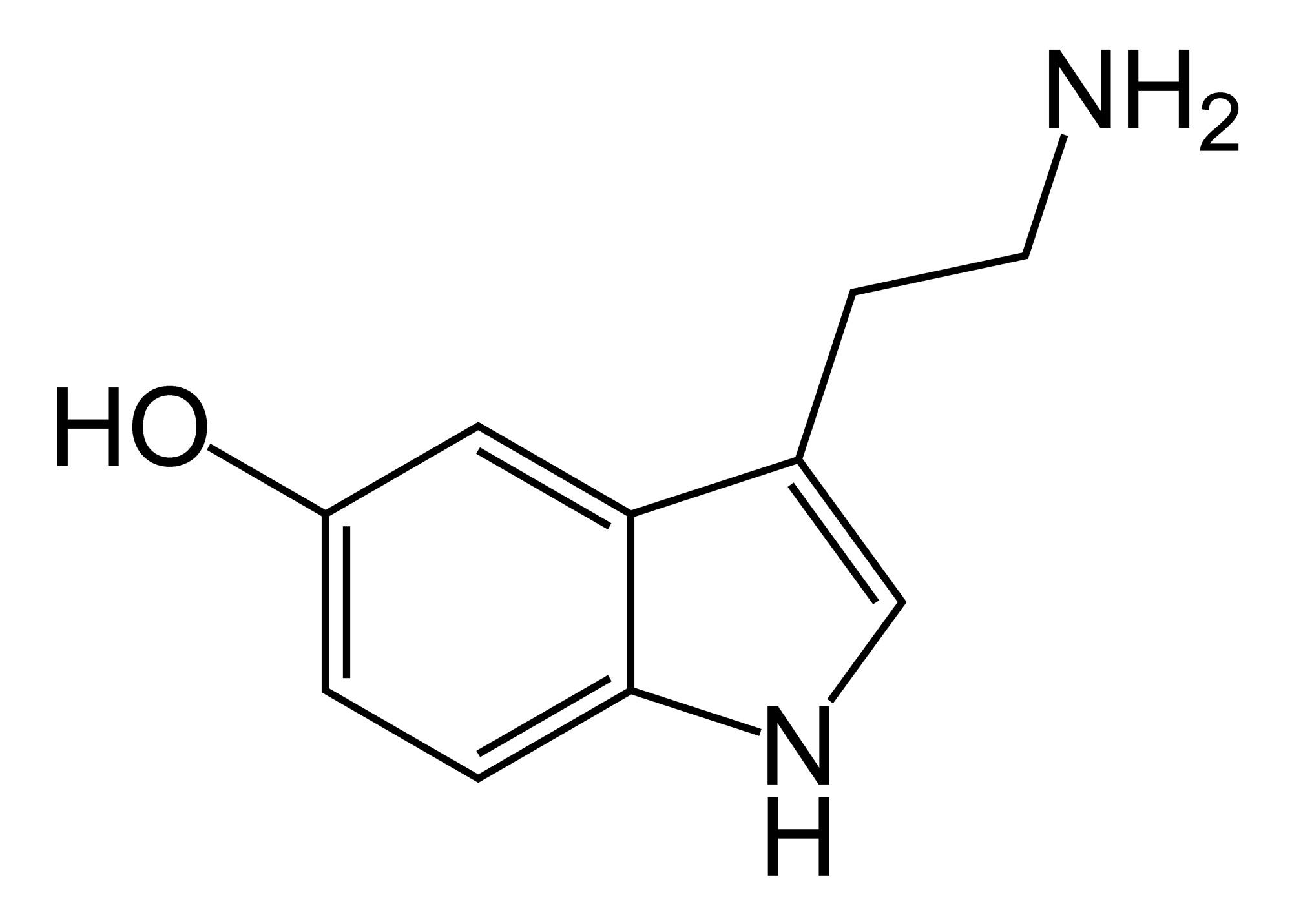 2D-structure of serotonin (5-hydroxytryptamine; 5-HT)